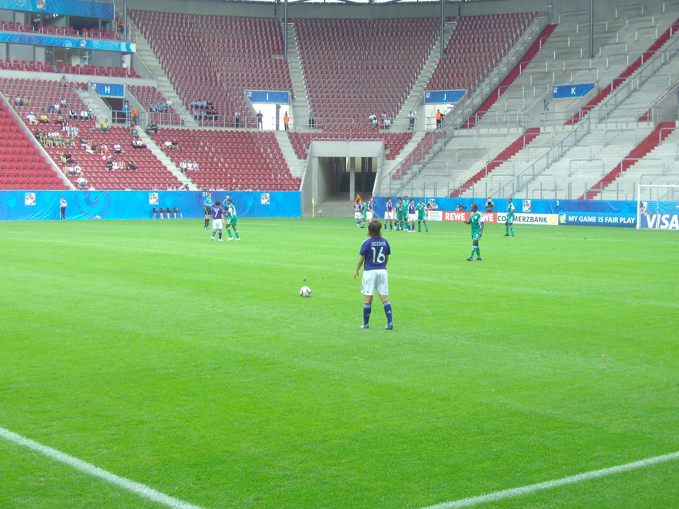 Nigeria–Japan at 2010 FIFA U-20 Women's World Cup in Impuls Arena as “FIFA Women's World Cup Stadium Augsburg”:Free kick for Japan: Ayano Dozono (16) is prepared to kick. Few spectators sit at the northern end of the main stand. The northern stand is not opened for spectators.